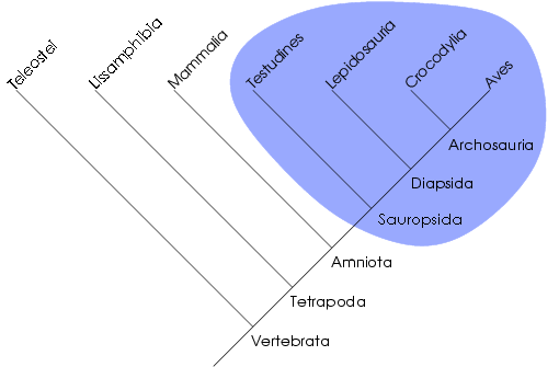 Replacing outdated taxa by clades